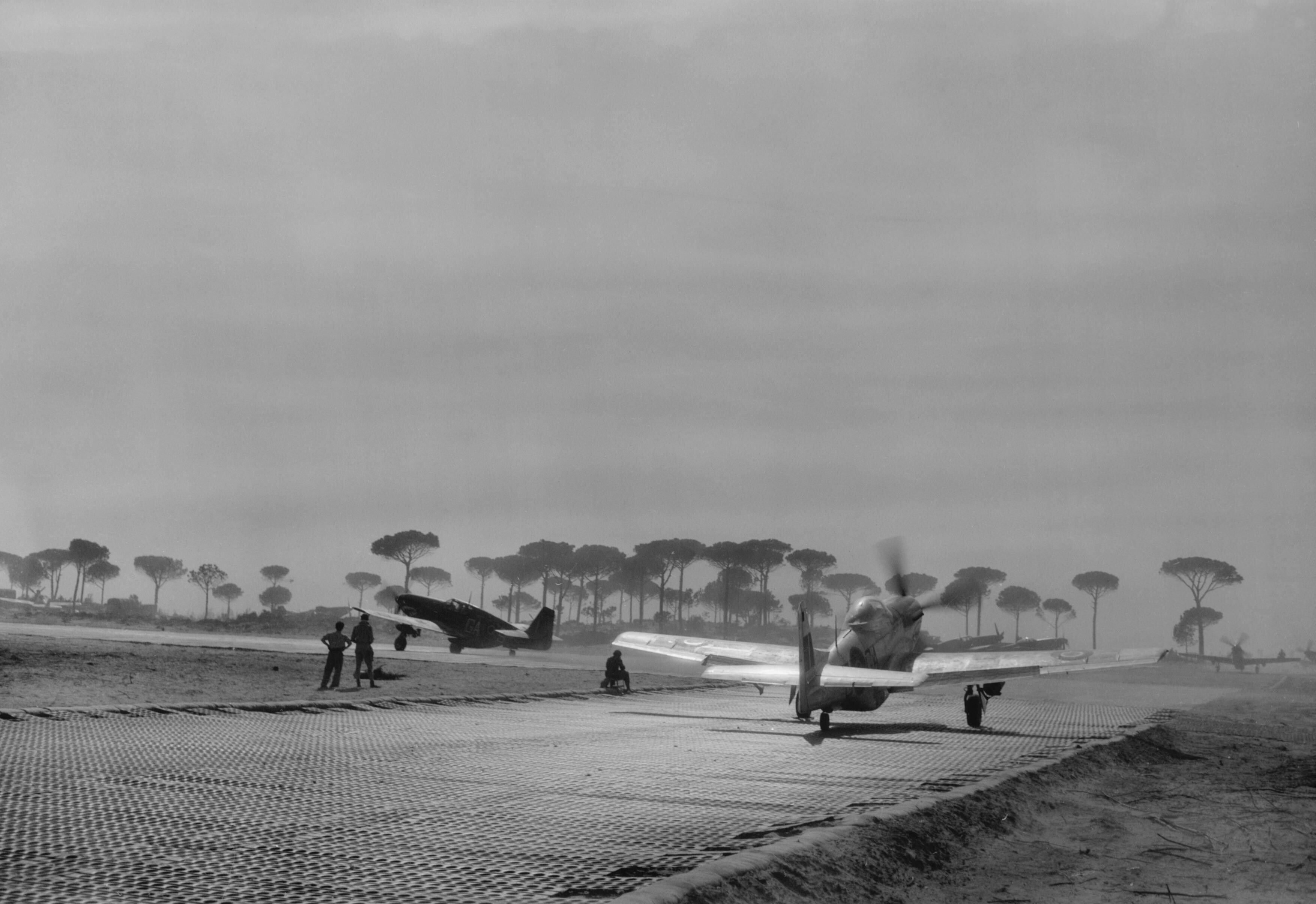 Royal Air Force- Italy, the Balkans and South-east Europe, 1942-1945. North American Mustangs of No. 112 Squadron RAF, loaded with 500-lb GP bombs, taxy to the runway at Cervia, Italy, before taking off on a sortie in support of the 8th Army's spring offensive in the Po valley. A Mark III leads a Mark IV along the taxiway covered with pierced steel planking (PSP).